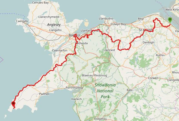 The route of the North Wales Pilgrims Way, on Open Data Street map